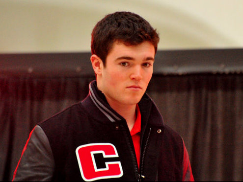 Canadian defenceman Scott Harrington at a press conference for the 2012 World Junior Championships on December 23, 2011, in Edmonton, Alberta.